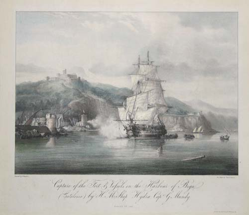 Capture of the Fort & Vessels in the Spanish Harbour of Begu,(Catalonia) by H.M.Ship Hydra, Capt G Munday Aught 7th 1807.